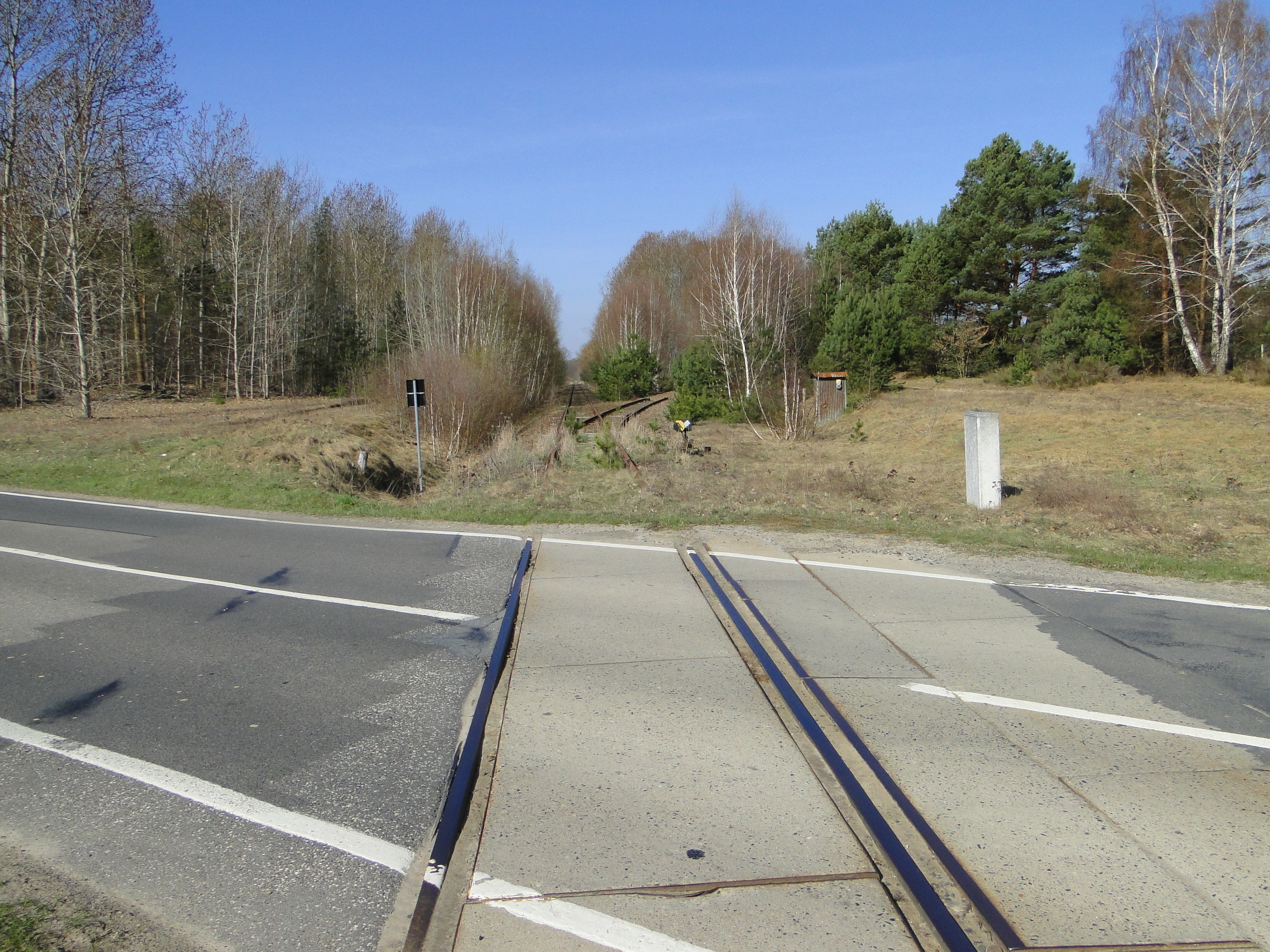 Unused railway of line Wittenberge–Strasburg in Mirowdorf, disctrict Mecklenburg-Strelitz, Mecklenburg-Vorpommern, Germany